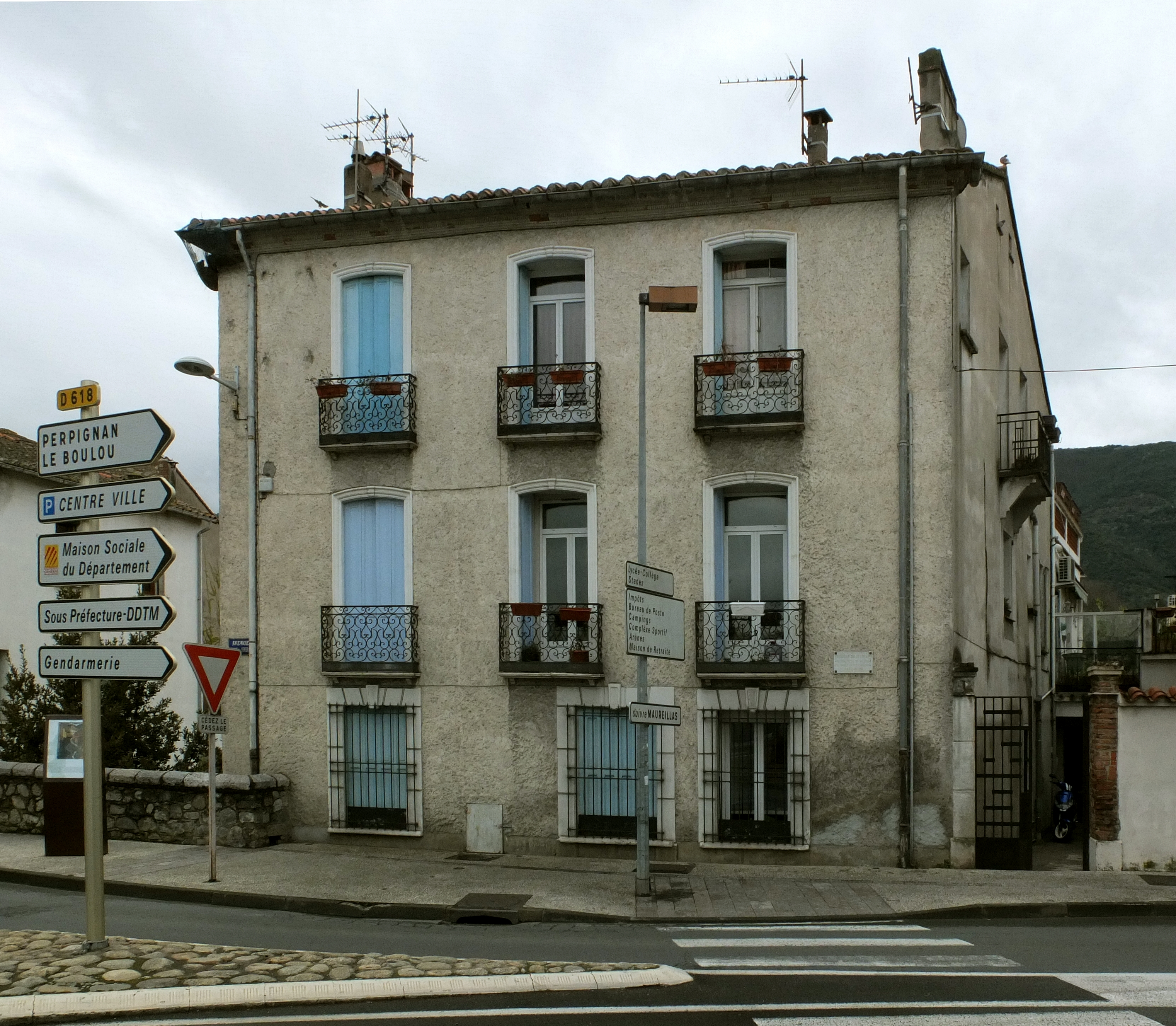 The house in which the composer Déodat de Séverac died in 1921, Céret, France.